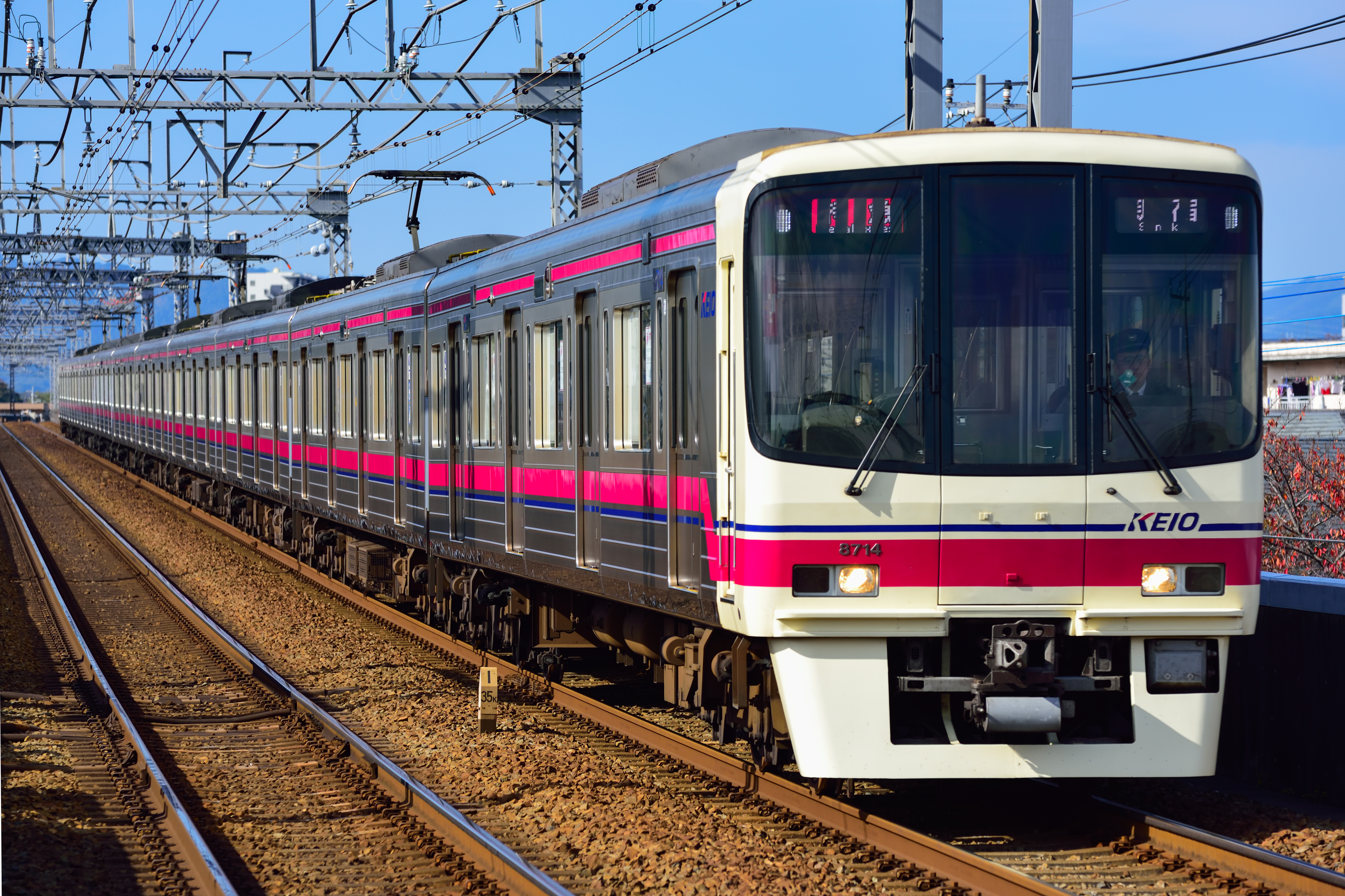 Keio 8000 series EMU set 8714 approaching Naganuma Station on the Keio Line in Hachioji, Tokyo, Japan